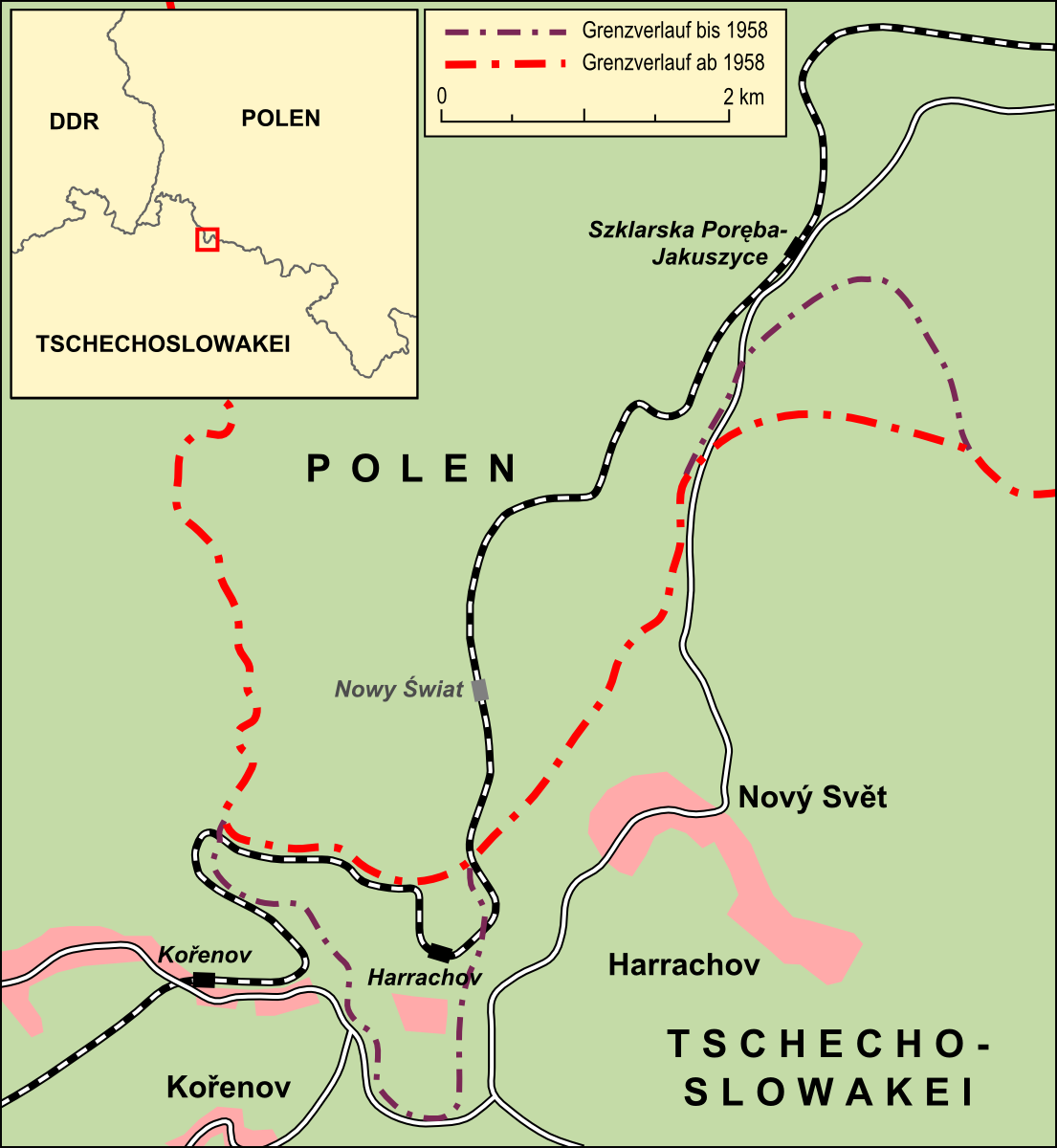 Map of territorial exchange between Czechoslovakia and Poland in 1958